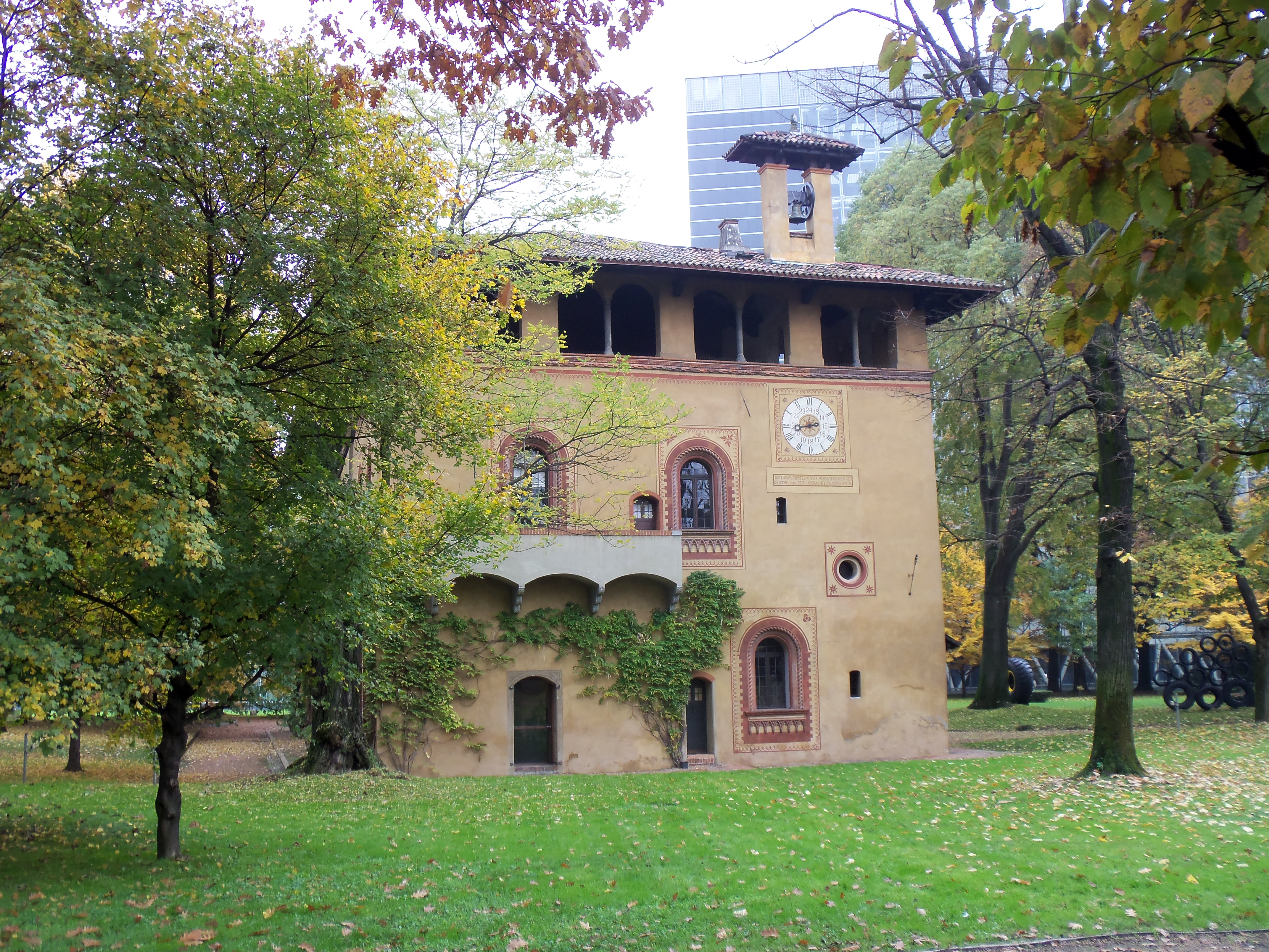 built in 1494, la "bicocca degli Arcimboldi", the summer residence of Arcimboldi, florence's bankers in Milan (banco Mediceo)